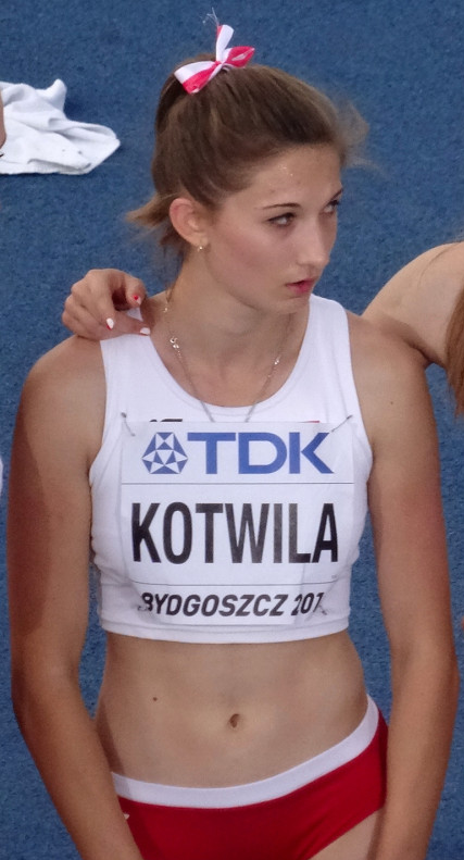 2016 IAAF World U20 Championships in Bydgoszcz, 4x100m relay women final